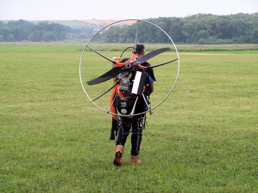 5th European Paramotor Championships 2008, Poland, Łomża, 2nd - 9th August 2008